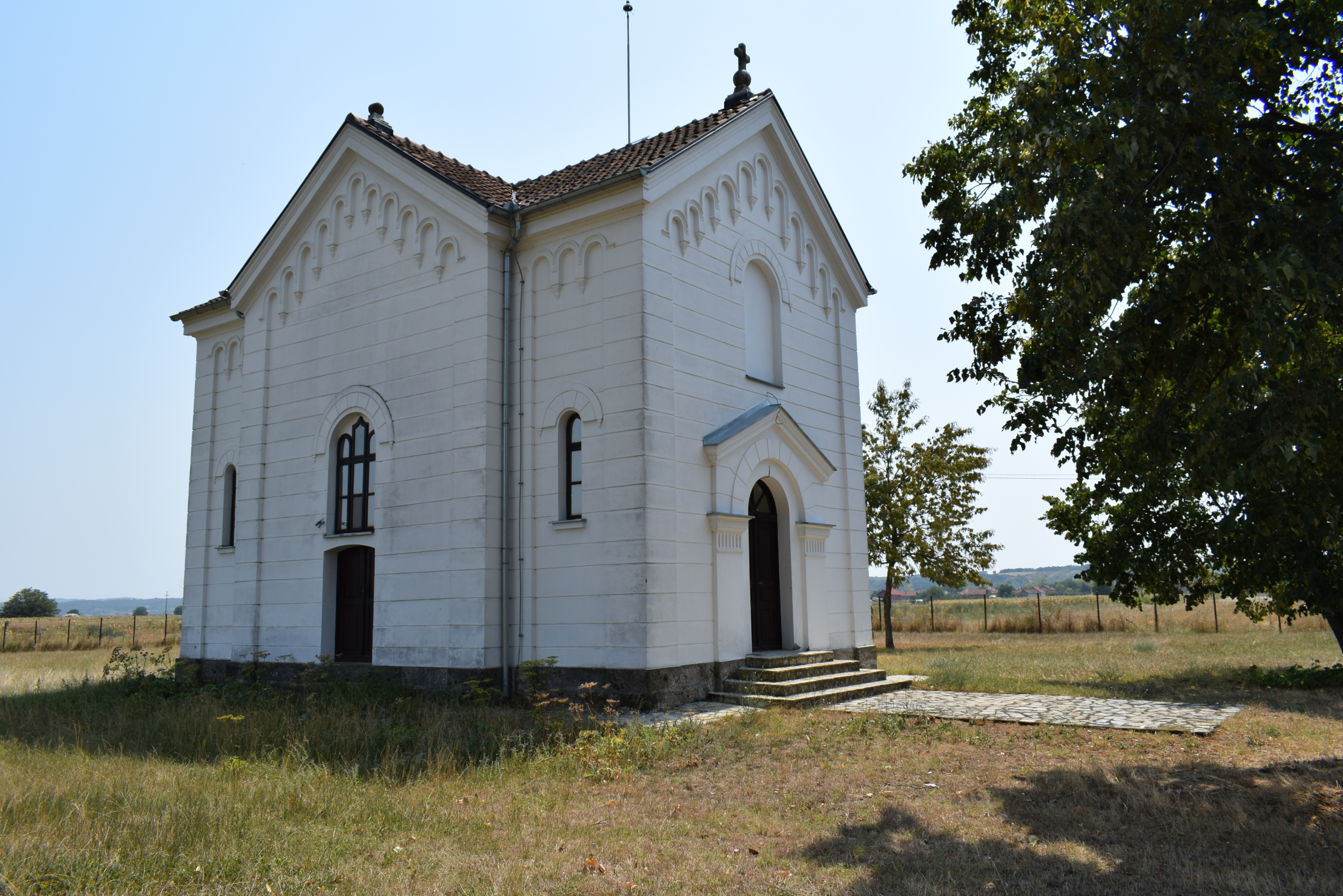 Crkva Uspenja Presvete Bogorodice, Žitorađa 002